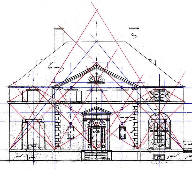 Geometric proportioning in practice examples from the work of Fairfax and Sammons.